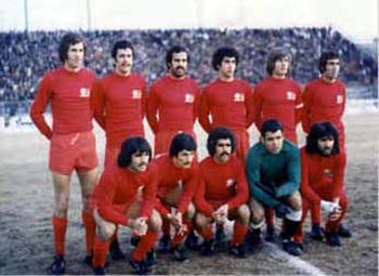 Tractor Sazi players during a Takht Jamshid League match in 1974